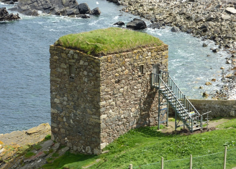 Kinnaird Head Castle Lighthouse, Fraserburgh, Aberdeenshire, Scotland. The Wine Tower.